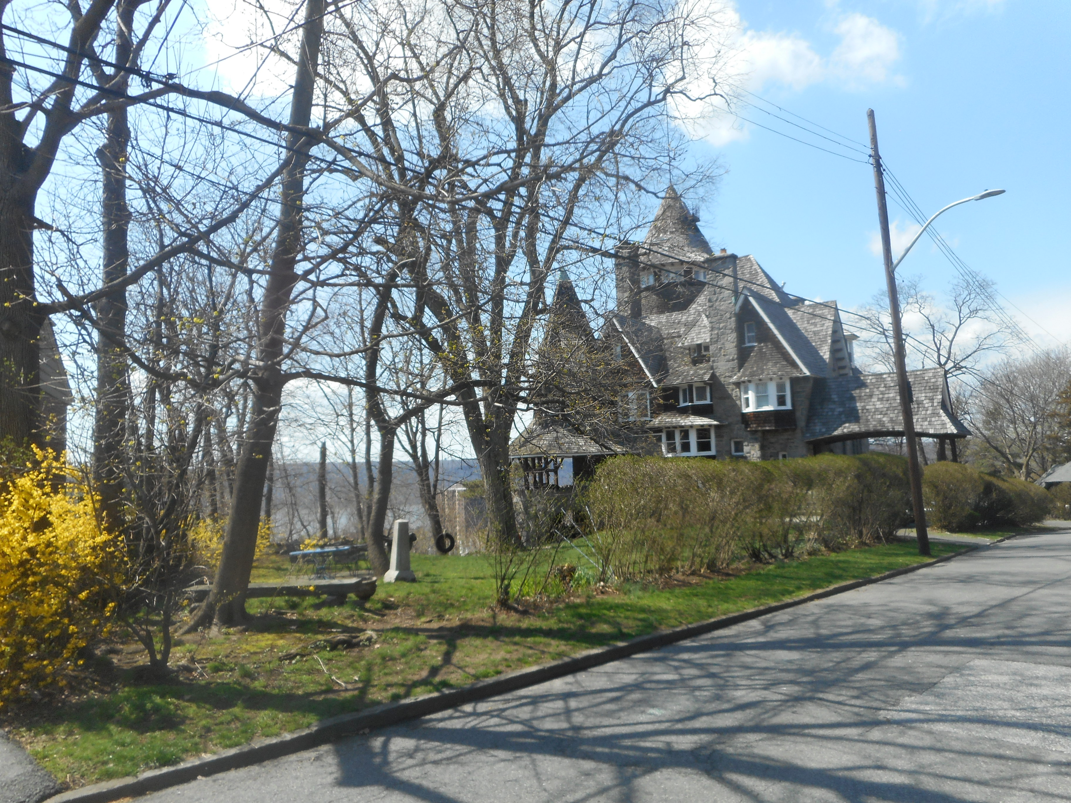 87 Alta Avenue, also known as the Residence of E.K. Martin, an elaborate towering Victorian house on the edge of the cliff of the Park Hill section of Southwest Yonkers, New York. The house was previously mistaken as the Park Hill Incline Railway Upper Station, but it actually next door to that station, which is at 83 Alta Avenue, although many websites have claimed it's at 82 Alta Avenue, and address that doesn't exist.